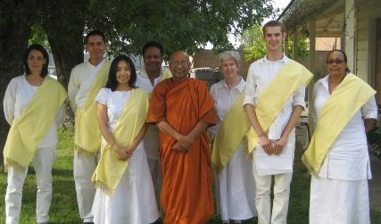 Dhammacari initiates